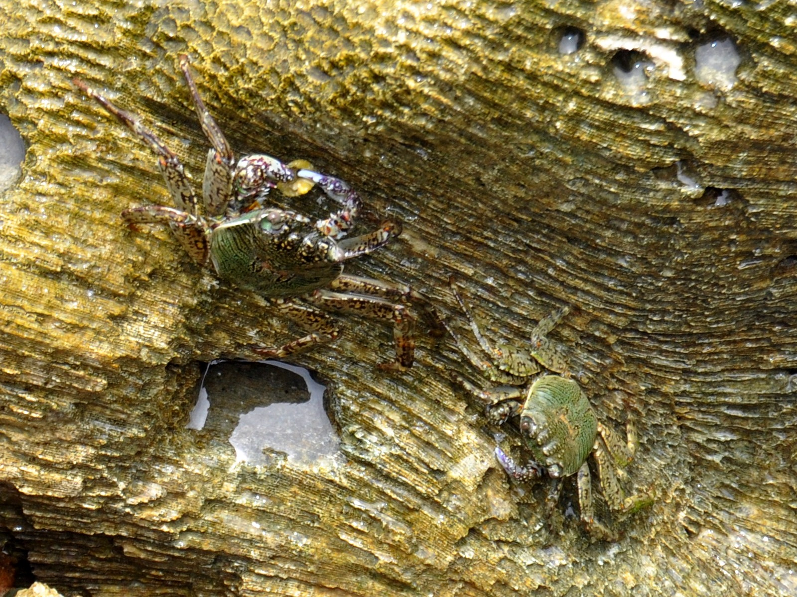 Mottled shore crab, Grapsus albolineatus; from Pandeglang, Bantam, Indonesia.